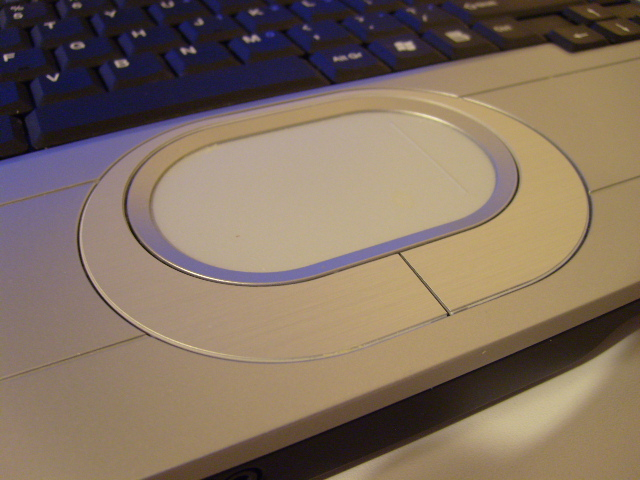 Synaptics TouchPad on Packard Bell Laptop